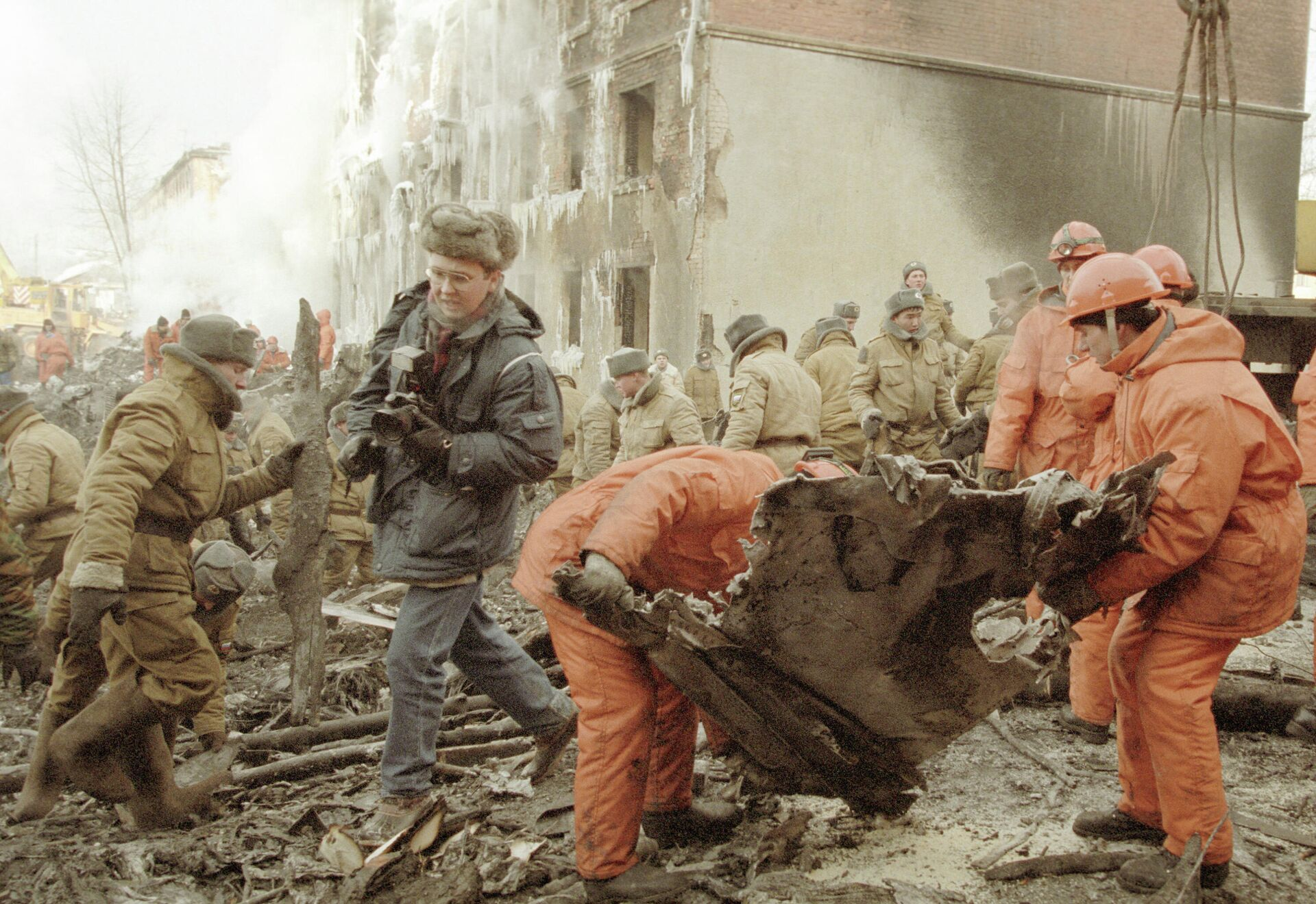 “Rescue operation”. Rescue operation at the location where a dwelling was destroyed as a result of AN-124 'Ruslan' aircraft disaster.